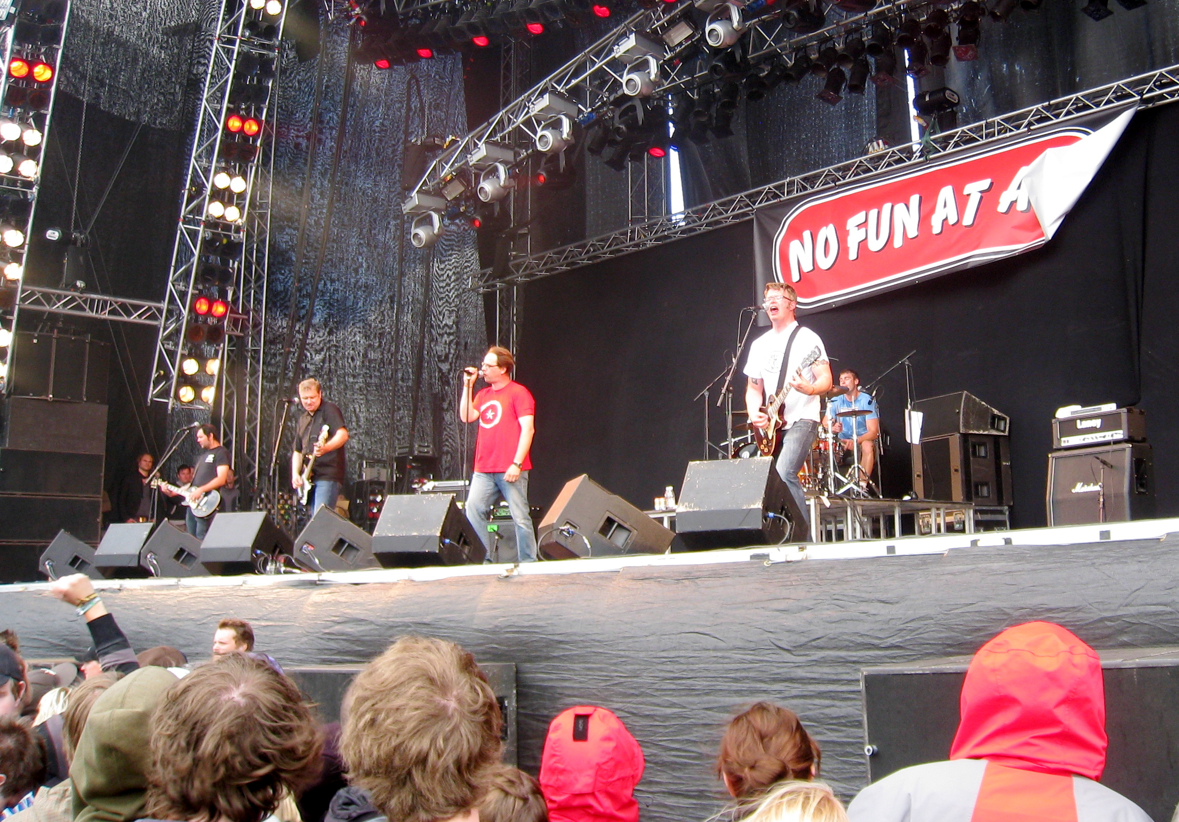 No Fun At All performing at the West Coast Riot festival in Gothenburg, Sweden.